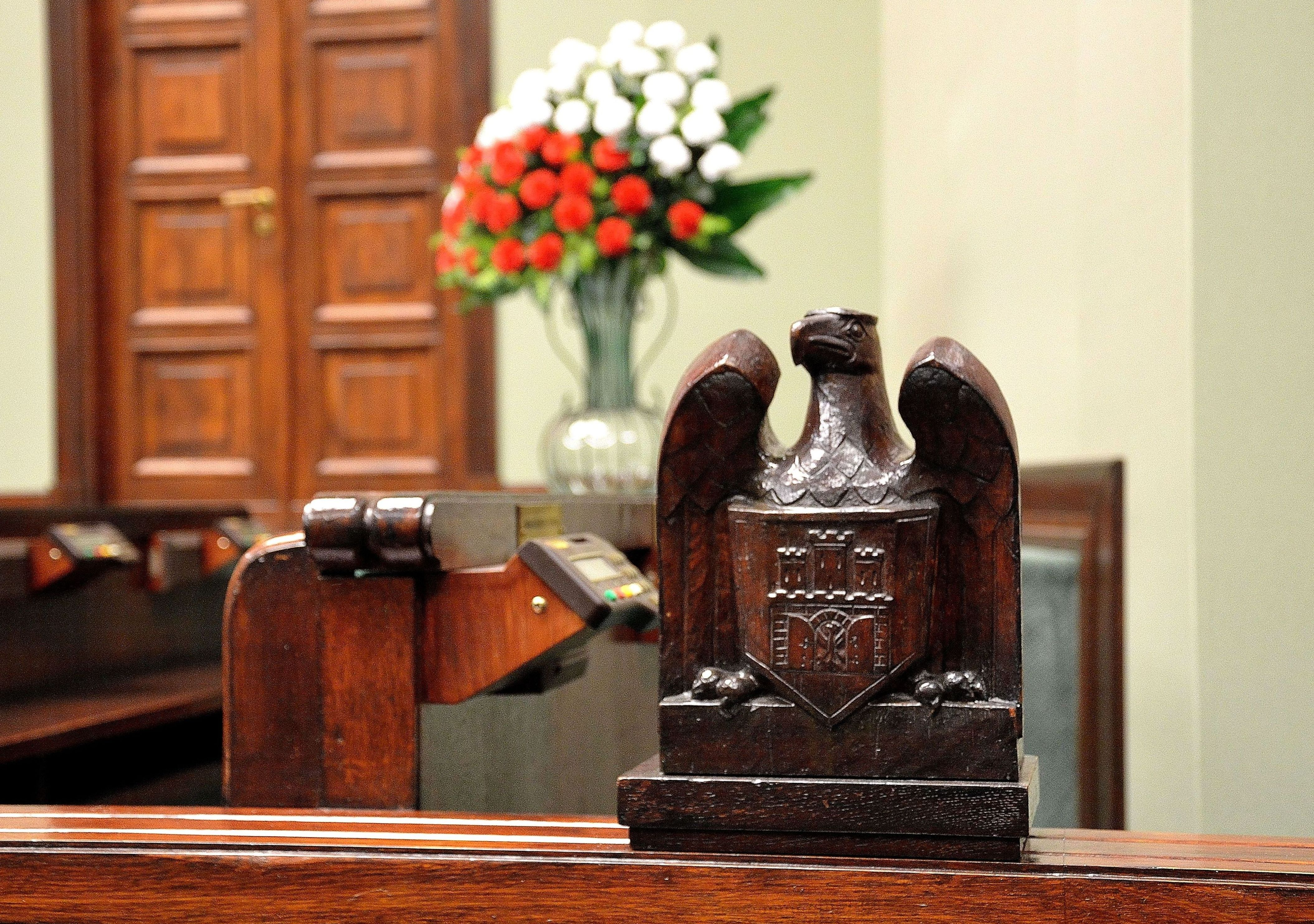 Coat of arms of Kraków on the chest of an eagle in the Sejm plenary Hall (sculpture by Aleksander Żurakowski)